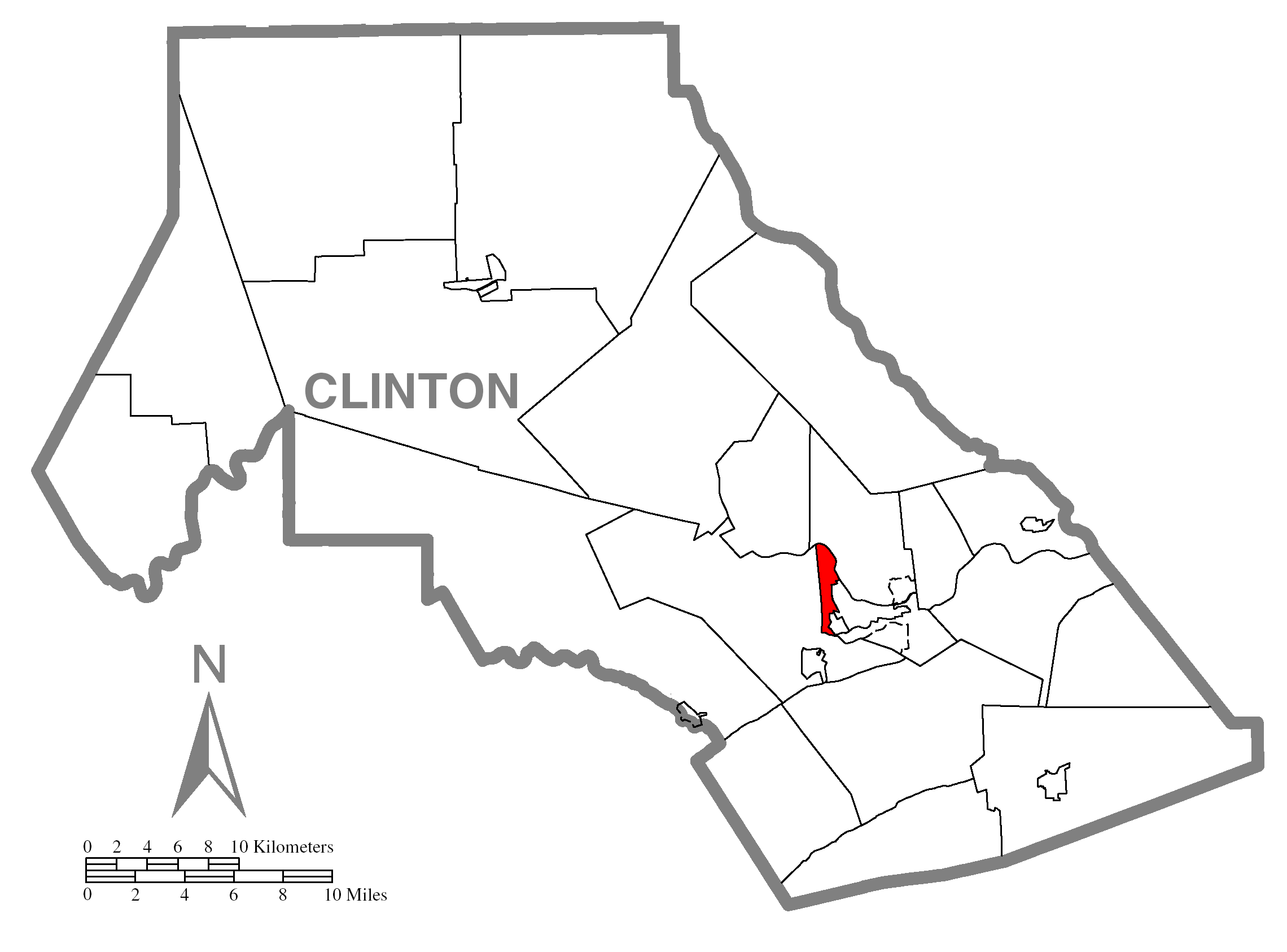 A map of Clinton County showing Allison Township, Pennsylvania (alternate) highlighted on the map.